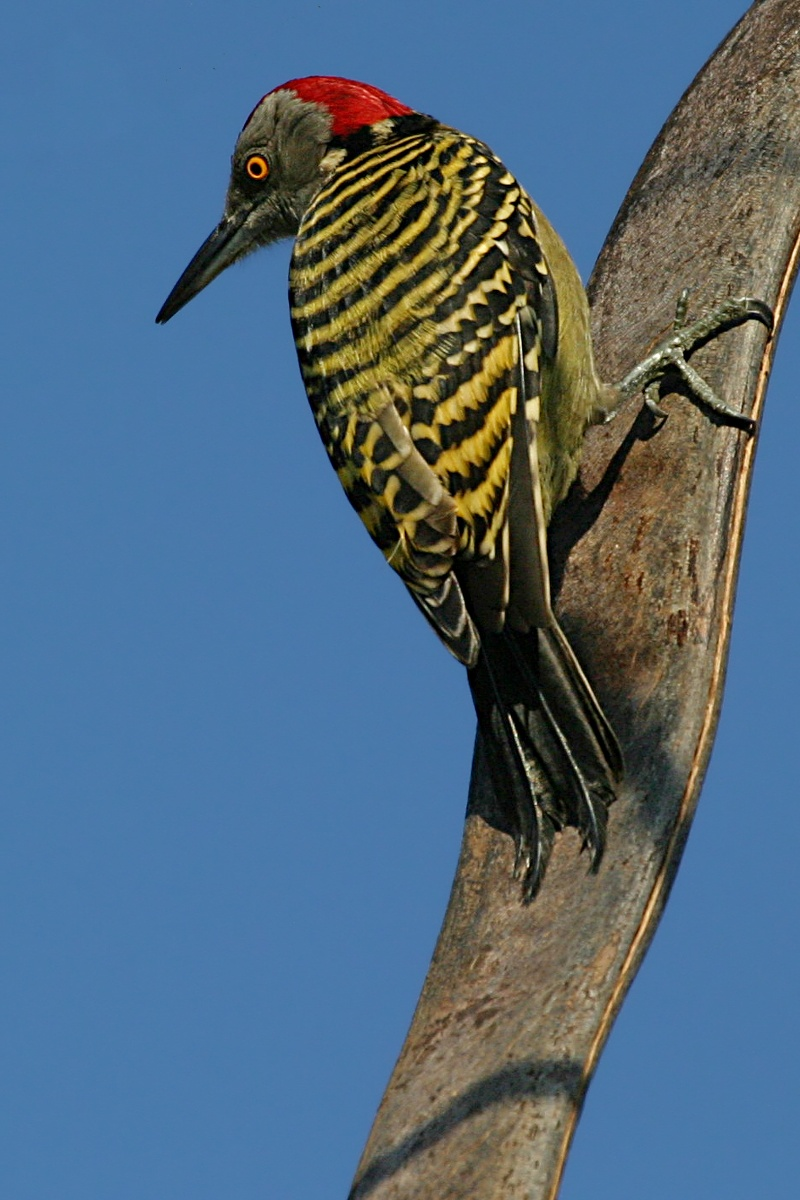 Hispaniolan woodpecker near the coast of La Romana province, Dominican Republic